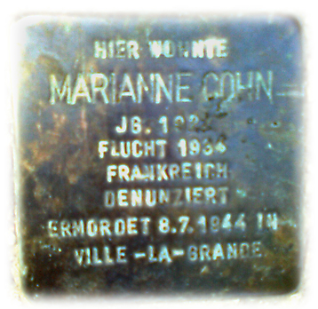 Stolperstein für Marianne Cohn am Wulfila-Ufer 52